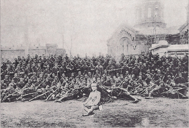 Greek soldiers of expedition corpus in Odessa, south Russia, 1919